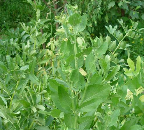 Tanacetum balsamita cv.majus (major) Habitus. 2008. Cultivar: Canonic Yuri Khanon